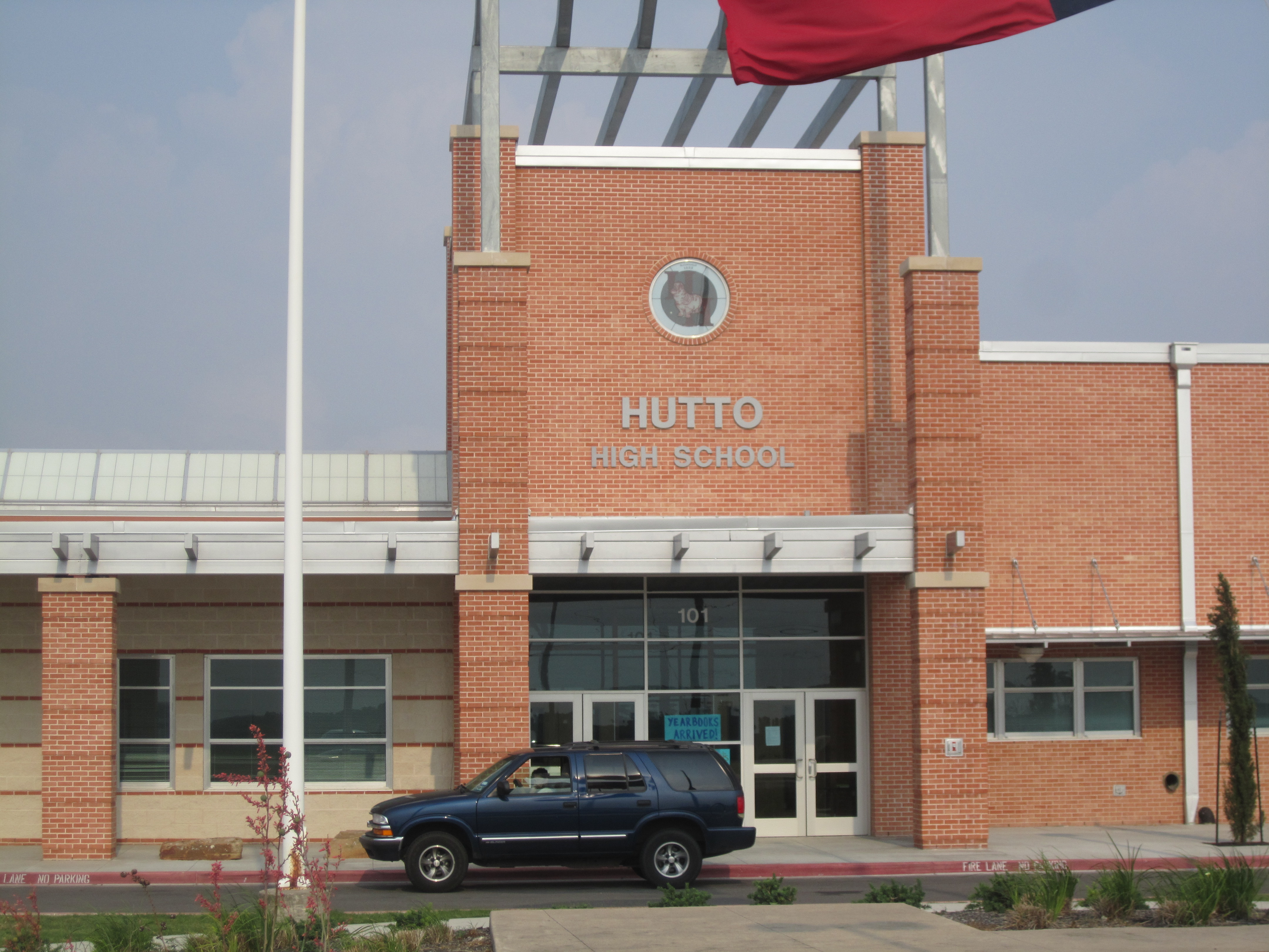 I took photo with Canon camera in Hutto, TX.